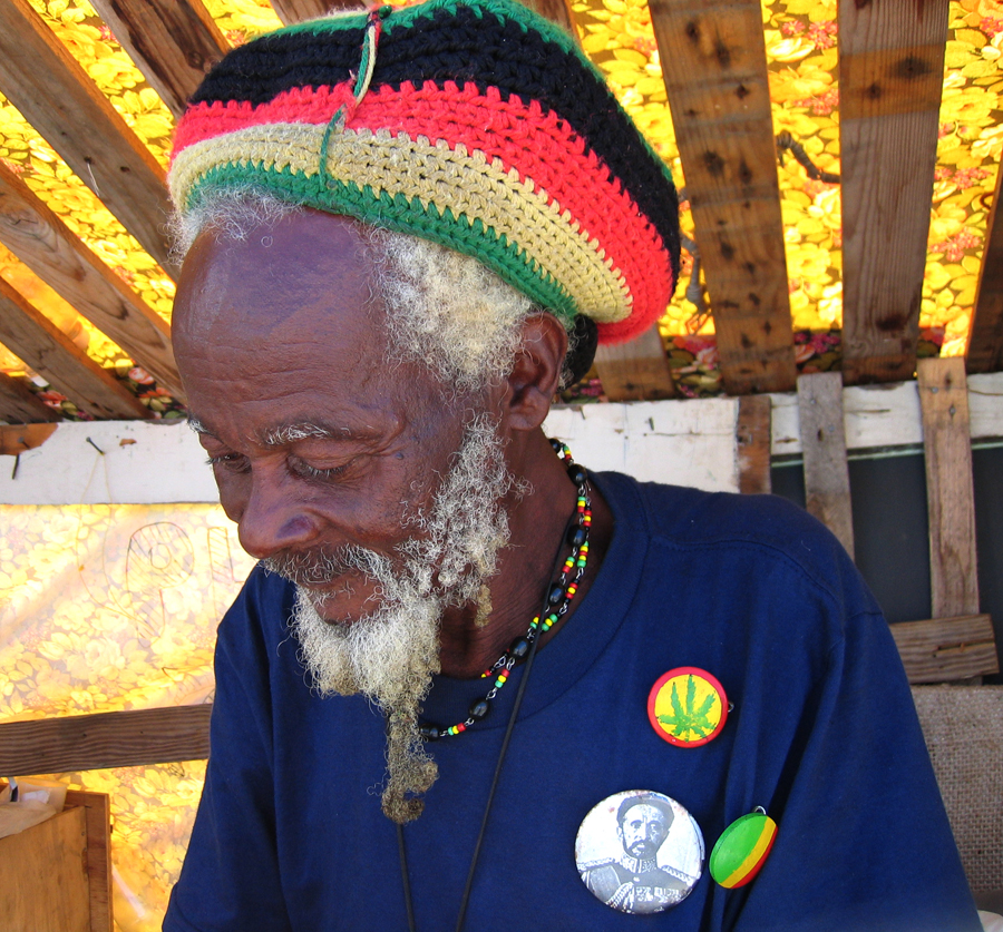 Disciple of the Rastafari movement encountered on a bridge in Barbados. The Wharf St. & HWY 7, Bridgetown, Barbados. Former musician, Artist, Rastafarian. Believes in Ganja and accepts "Haile Selassie I" as God Incarnate (Jah).